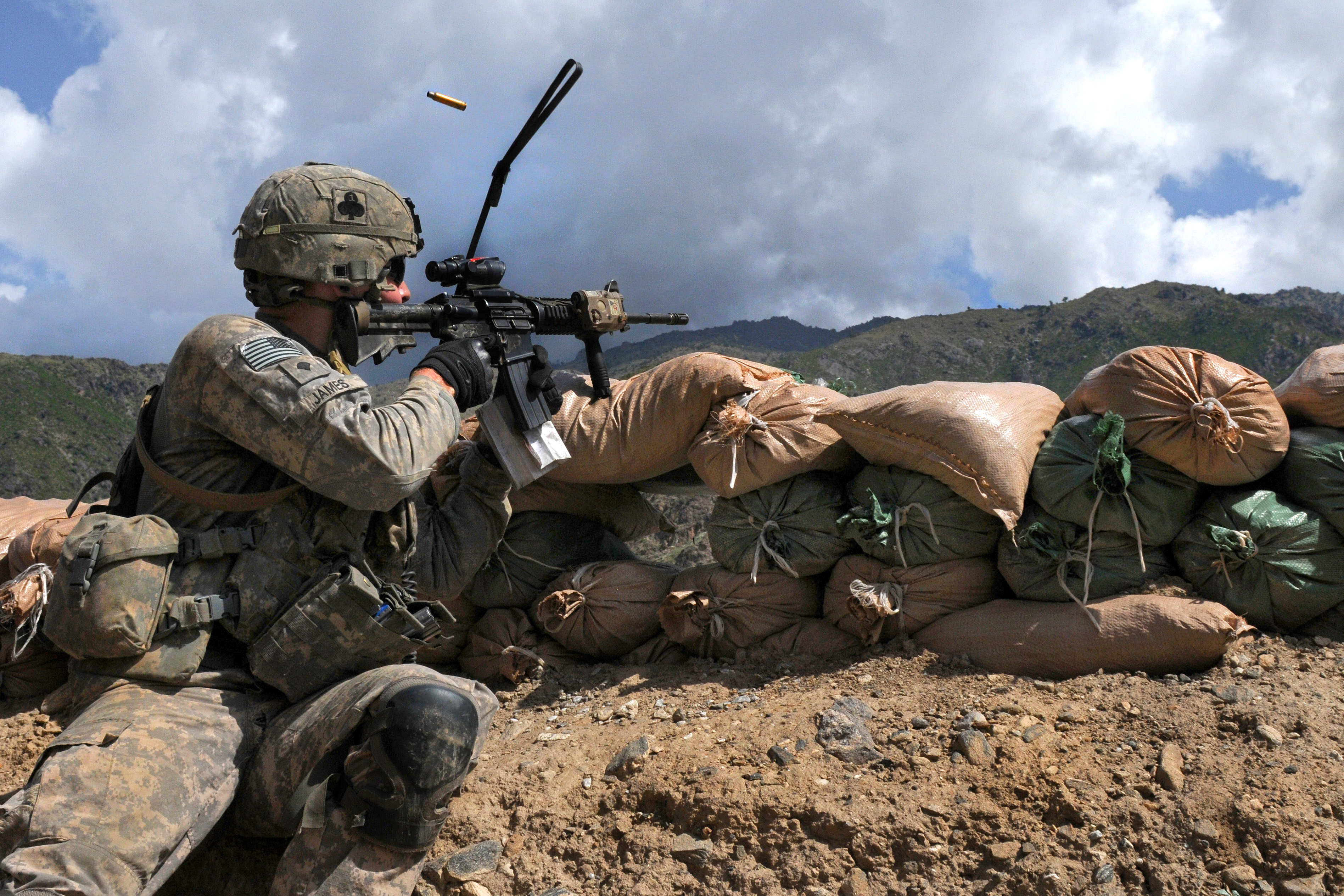 U.S. Army Spc. William B. James shoots at the enemy during a firefight that lasted more than three hours at an Afghan National Police Checkpoint in Kunar province, Afghanistan, Sept. 18, 2010. James is assigned to the 327th Infantry Regiment's Company D, 1st Battalion, Task Force Bulldog. An estimated two dozen insurgents fired rocket-propelled grenades, heavy machine guns and small arms at the post.